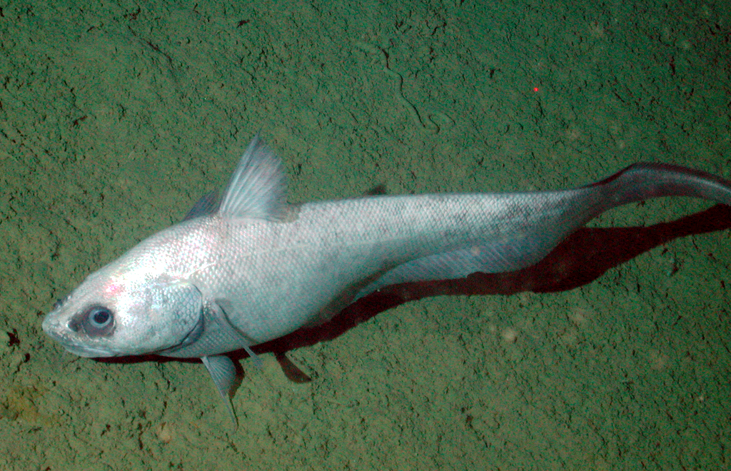 Ghostly grenadier (Coryphaenoides leptolepis) on the Davidson Seamount at 3158 meters depth.